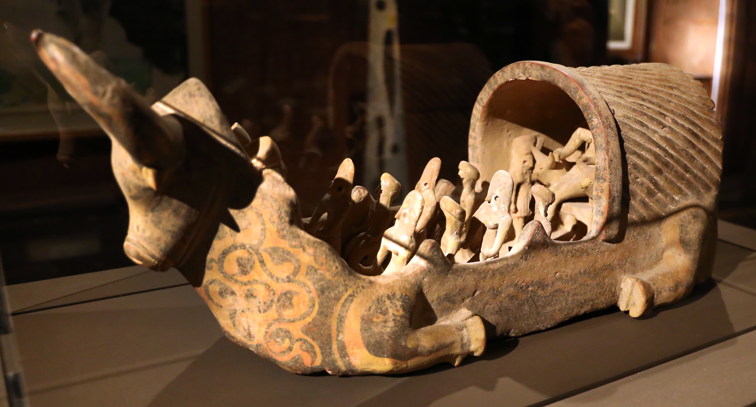 Intuition (Palazzo Fortuny 2017 exhibition)